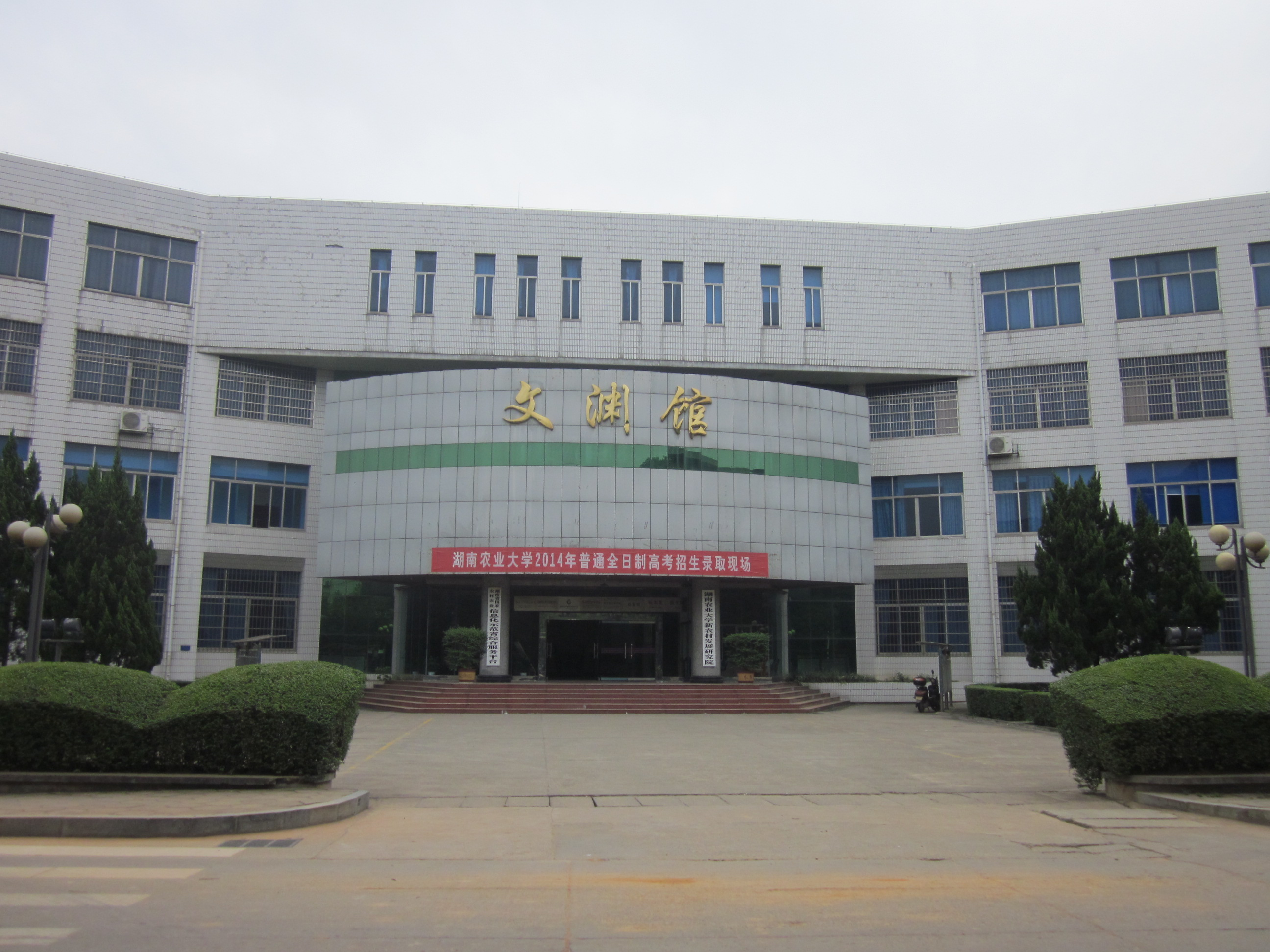 Hunan Agricultural University (Chinese: 湖南农业大学 pinyin: Húnán Nóngyè Dàxué, commonly referred to as HAU or Nongda) is a public research university located in Changsha, Hunan, China.